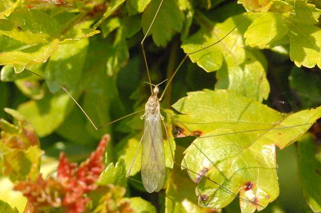 Ormosia nodulosa from Commanster, Belgian High Ardennes .